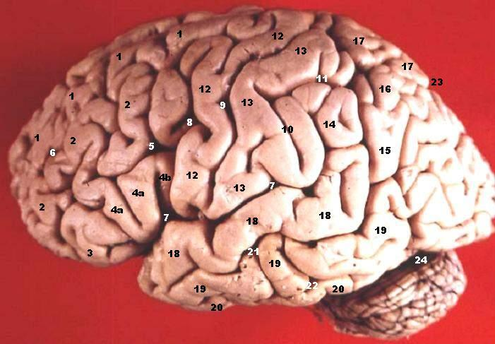 Human brain lateral view - Gyri et Sulci Gyrus frontalis superior Gyrus frontalis medius Gyri orbitales Gyrus frontalis inferior, a) Pars triangularis, b) Pars opercularis Sulcus frontalis inferior Sulcus frontalis superior Sulcus lateralis Sulcus praecentralis Sulcus centralis Sulcus postcentralis Sulcus intraparietalis Gyrus praecentralis Gyrus postcentralis Gyrus supramarginalis Gyrus angularis Lobulus parietalis inferior Lobulus parietalis superior Gyrus temporalis superior Gyrus temporalis medius Gyrus temporalis inferior Sulcus temporalis superior Sulcus temporalis inferior (medius?) Sulcus parieto-occipitalis Incisura praeoccipitalis The Precentral Gyrus (12) is the Primary Motor Cortex or Motor Strip-the area which contains most of the neurons which directly control voluntary movements. The Postcentral Gyrus (13) is the Primary Somatosensory Cortex or Sensory Strip- the area where sensations from the body, e.g., touch, project into conscious awareness. (font: arial black, size: 10)